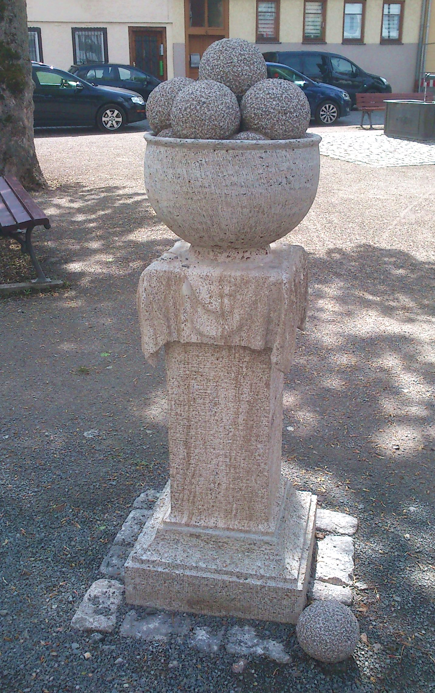 “Hütes Monument” or “Kloß Monument” at square Töpfemarkt in Meiningen, Thuringia, Germany; dedicated to Thüringer Klöße, named “Hütes” around Meiningen